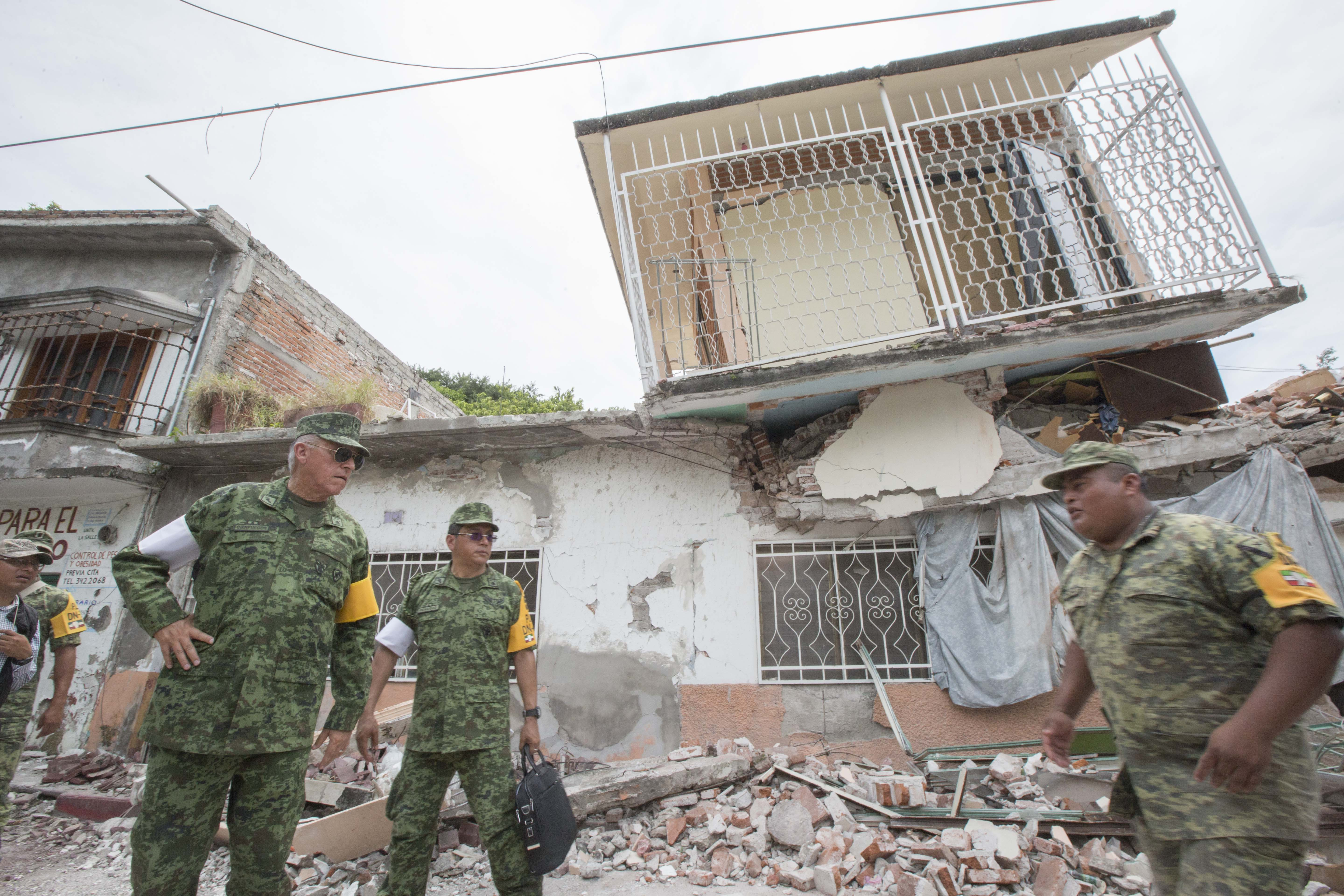 El Presidente Enrique Peña Nieto visitó Jojutla, Morelos, uno de los municipios más afectados tras el sismo del 19 de septiembre.